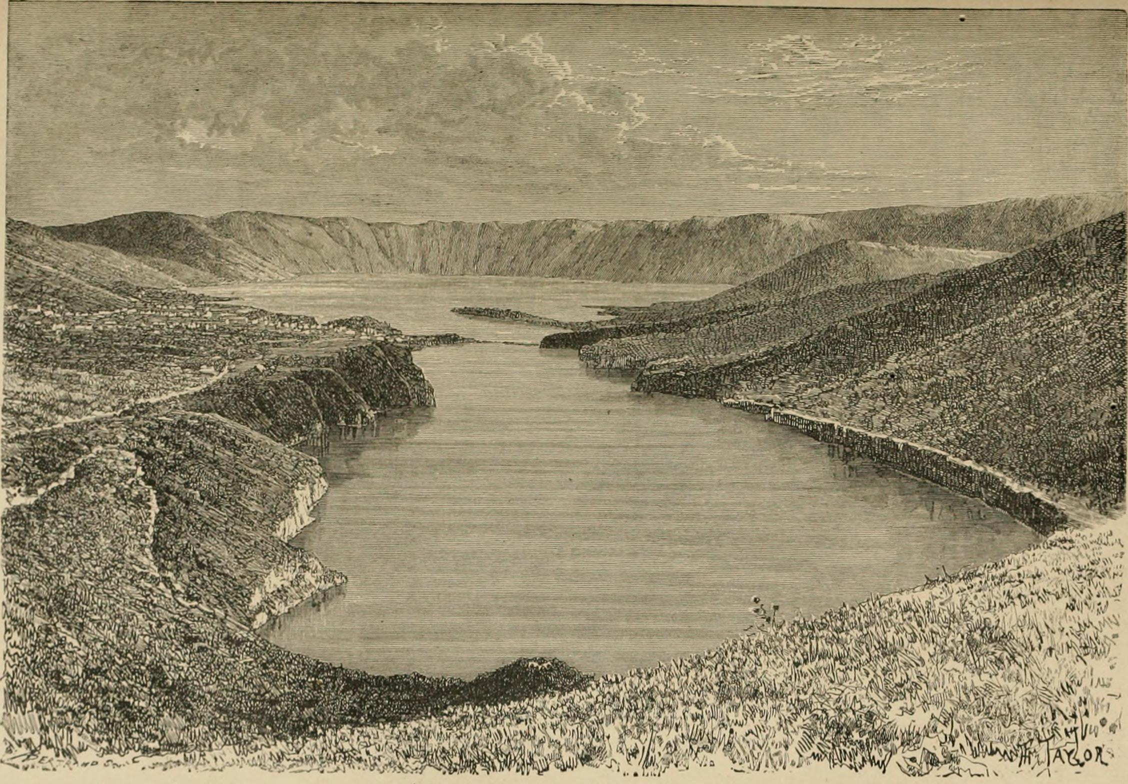 "Lake of the Sete Cidades" in Africa and its Inhabitants, vol. II, p. 37